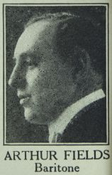 Arthur Fields; picture from an Edison Amberol Record, November 1920